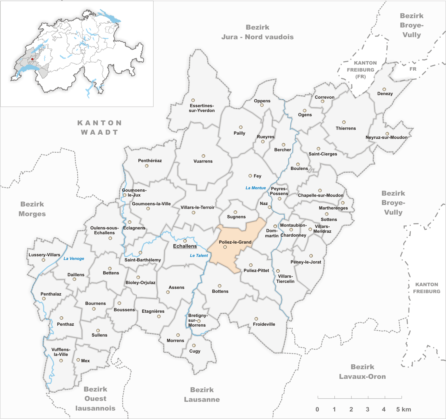 Municipality Poliez-le-Grand